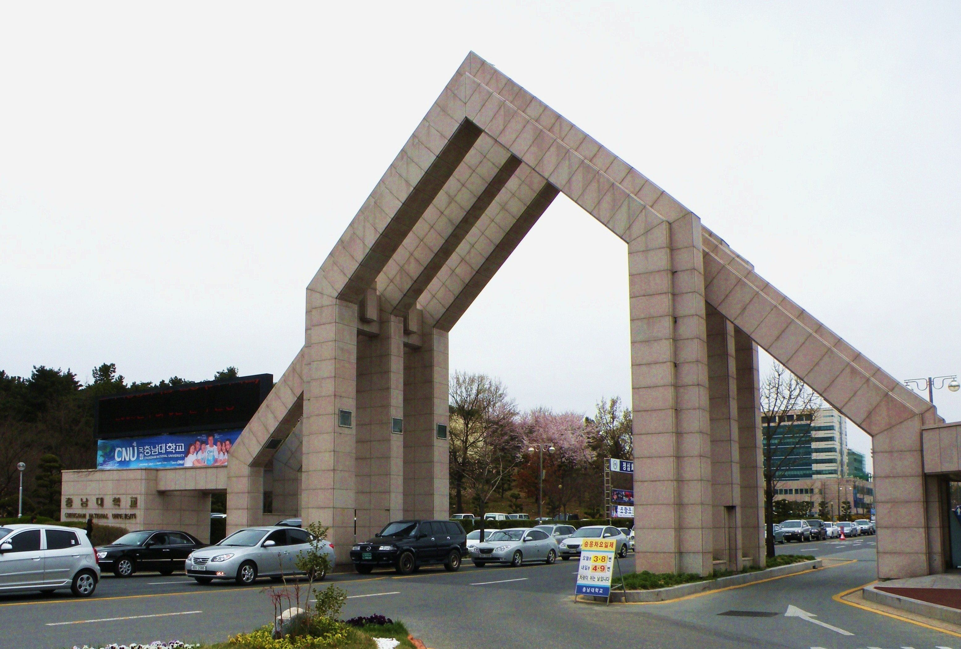 Main entrance to Chungnam National University, Daejeon, South Korea